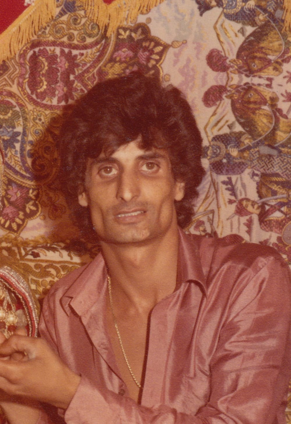 Depicted person: Zohar Argov – Israeli singer